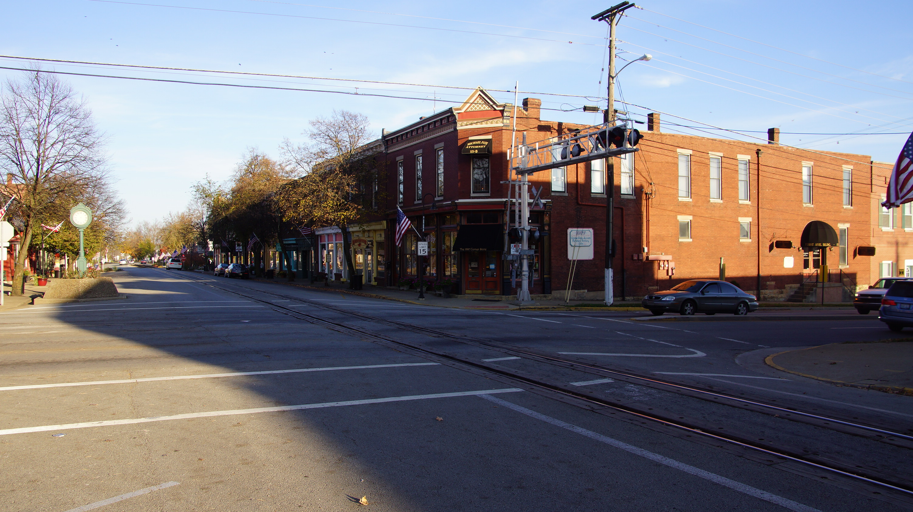 La Grange, KY, Ohio Valley Railroad